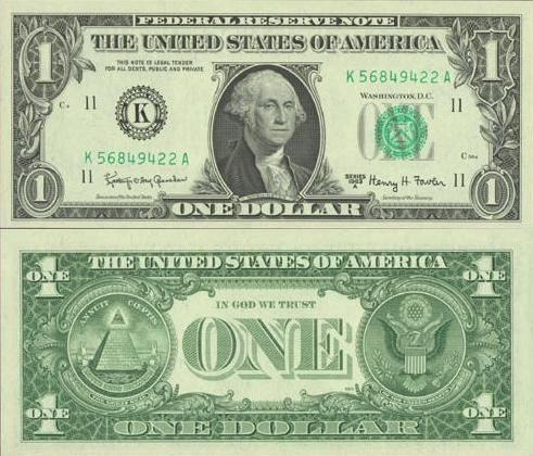 US 1 dollar bill, 1963A series.